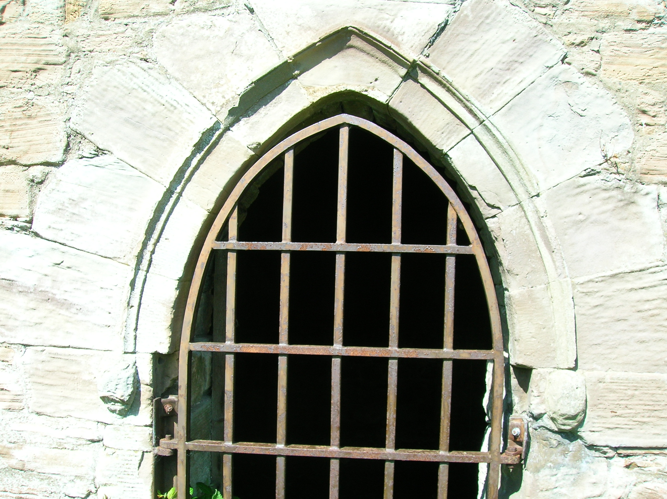 The door to the Eglinton Doocot (Dovecot), Kilwinning, North Ayrshire, Scotland